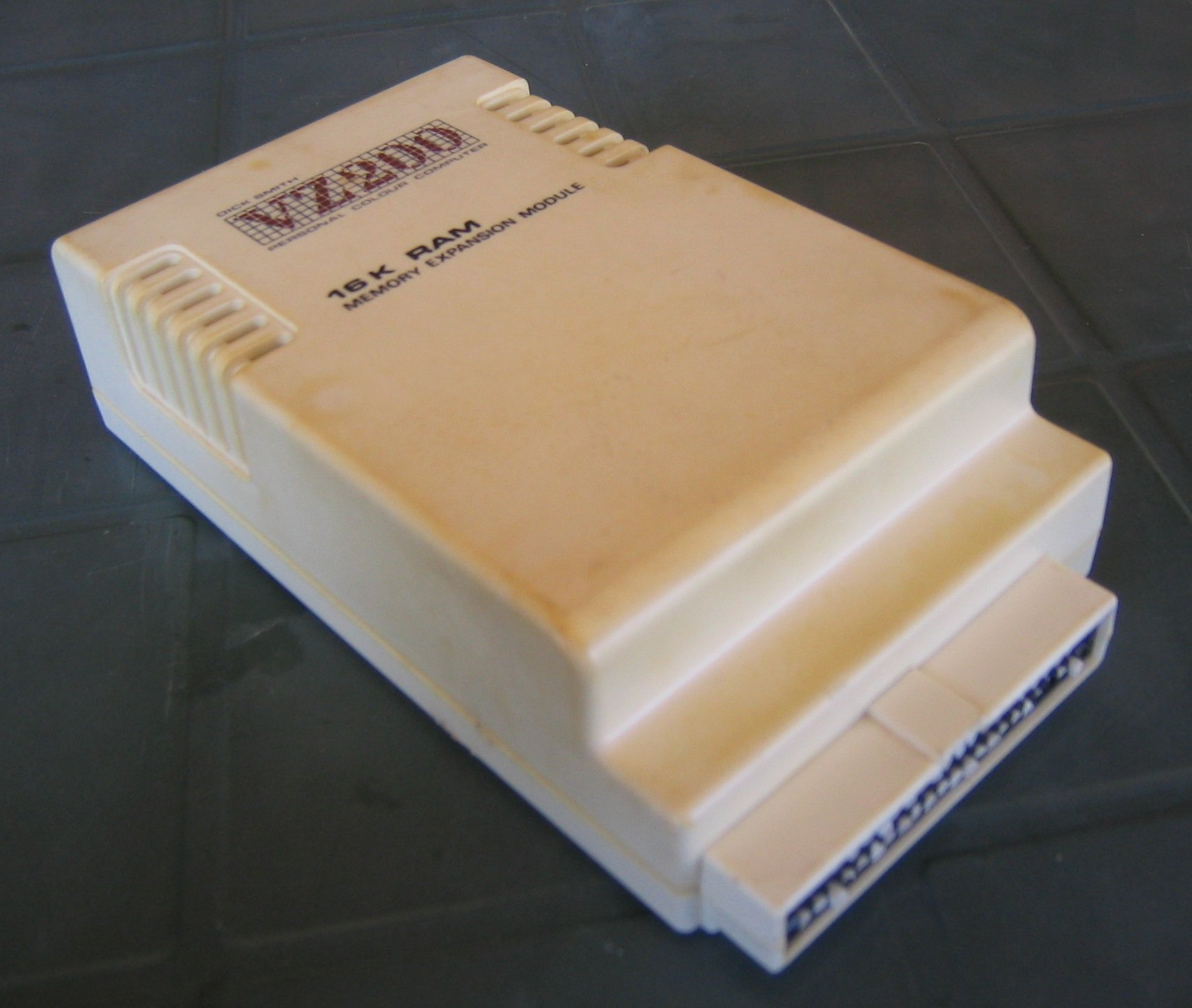 The 16k RAM expansion unit for a VZ-200 computer, as sold by Dick Smith in Australia. This unit has been modified by the addition of a small white pieces of rubber eraser behind each contact of the edge connector socket. This was an attempt to increase the contact pressure as during operation the computer was prone to crashing due to intermittent contacts in the memory expansion connector.